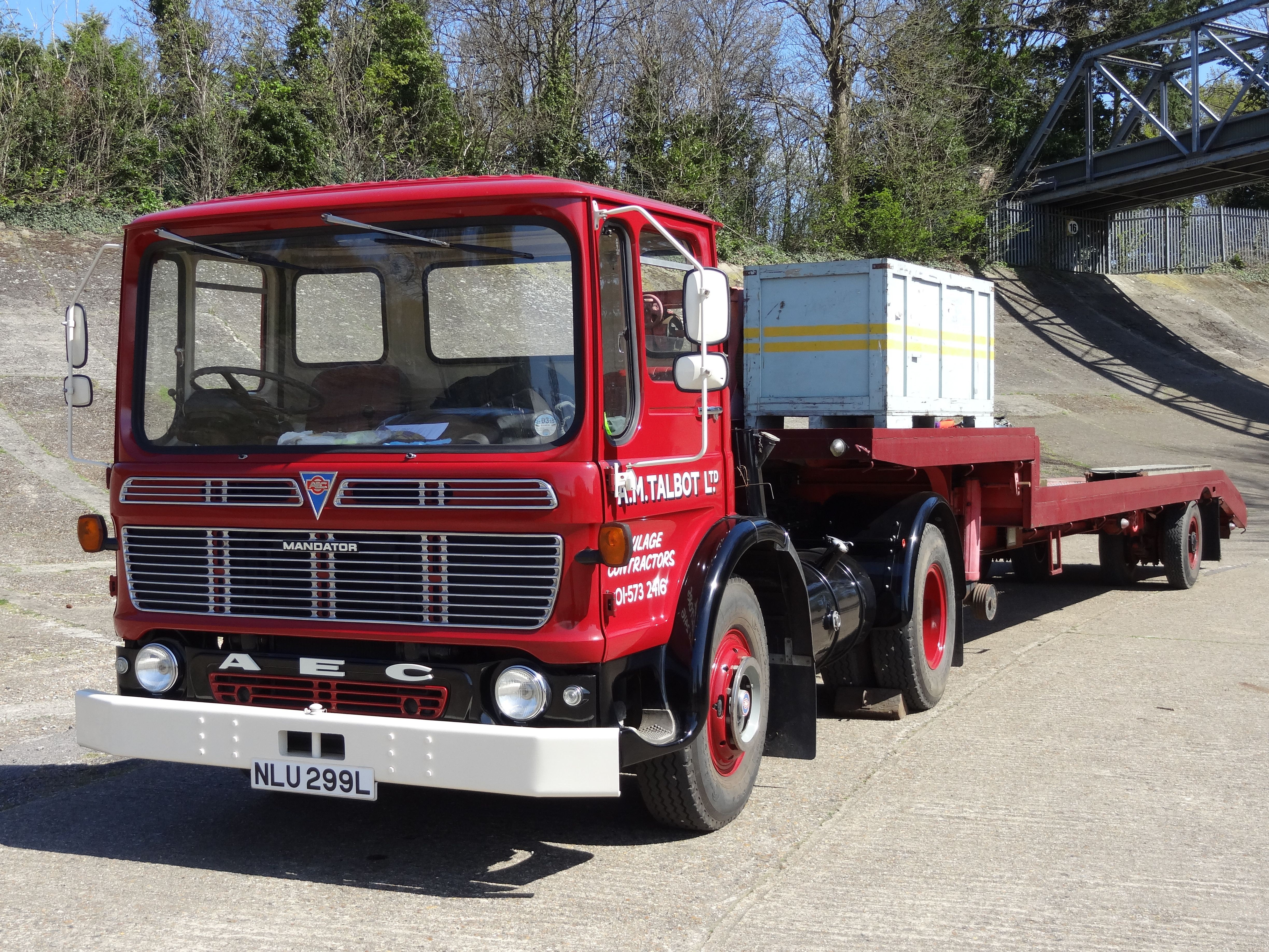 Preserved AEC Mandator truck (reg. NLU 299L) restored to its original owners livery (A.M. Talbot Ltd Haulage Contractors), seen here at the London Bus Museum's annual spring rally at Brooklands. While somewhat out of place at a bus rally, it was there because it had brought with it on its low loader trailer the chassis of an AEC bus undergoing restoration, the RT class (reg. NLE 989).